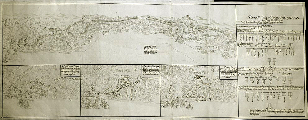 Original title: "Plan of the Battle of Krotska In the Year 1739" Title and descriptions are in English. Image consists of four maps on movements in the battle and two orders of battle of the imperial troops in Hungary and the imperial troops in the Banat, each with names of the generals and regiments. Dedicated to the English king. According to the DigAM webpage, work is dated 22. July 1739.